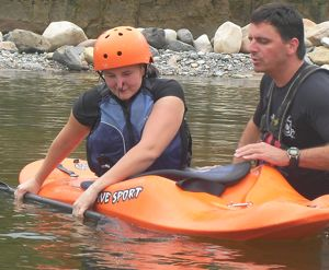 to practice rolling, the first step is to set up.